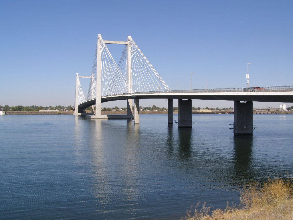 This bridge has a good place for bikes and pedestrians.